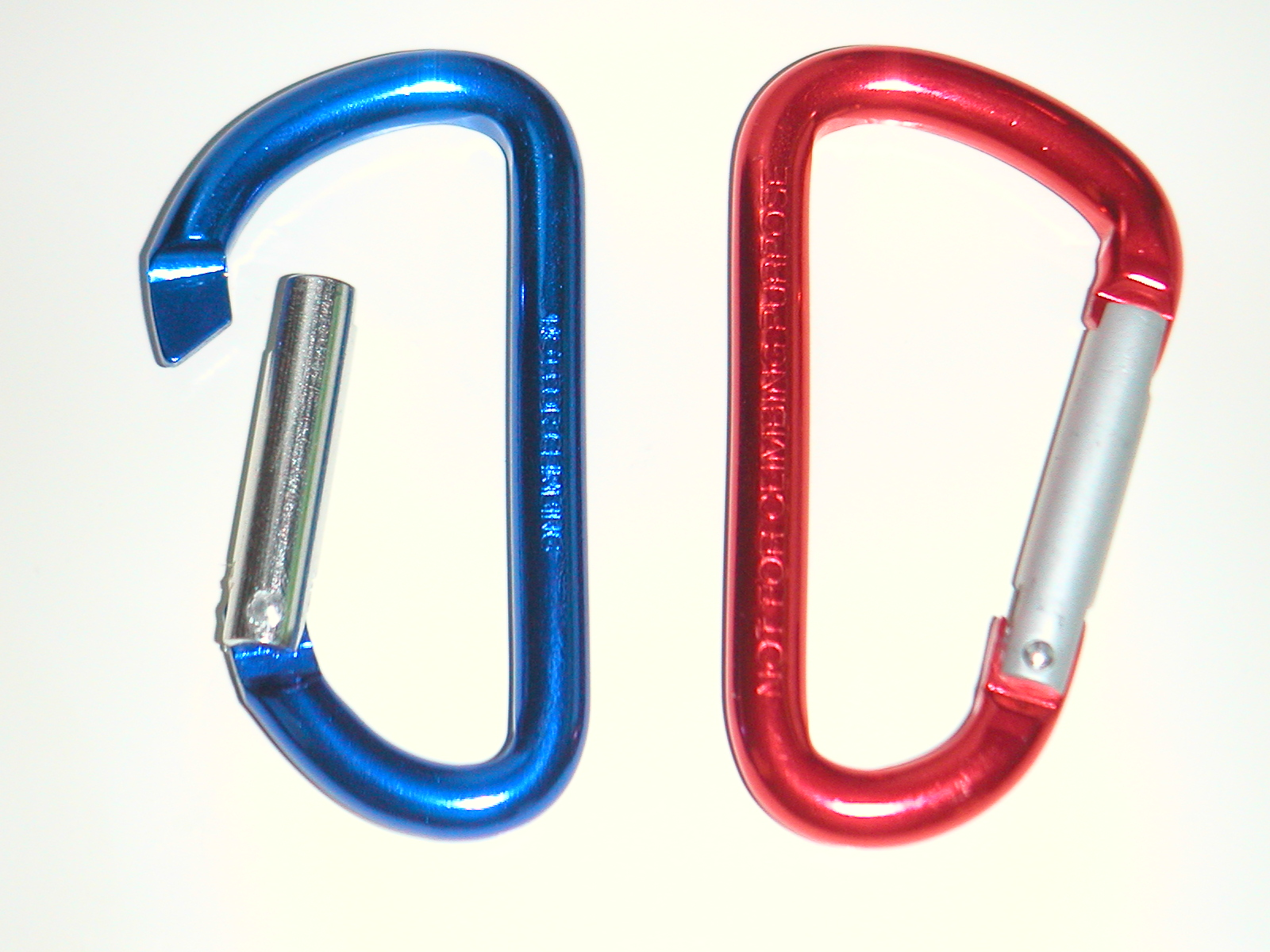 Carabiners of the "not for climbing" variety, blue and red. One came with either a water bottle or a backpack (I don't remember which), the other was in a 3-pack at the 99¢ store. The left one is held open–using paper in the hinge–to show the lack of a pin-and-hook at the closure, which prevents the gate of the carabiner from bearing load. This contributes to the 150 lb. load limit and to the low manufacturing costs. Background is a white Ikea tabletop. Brightness has been increased to show detail.